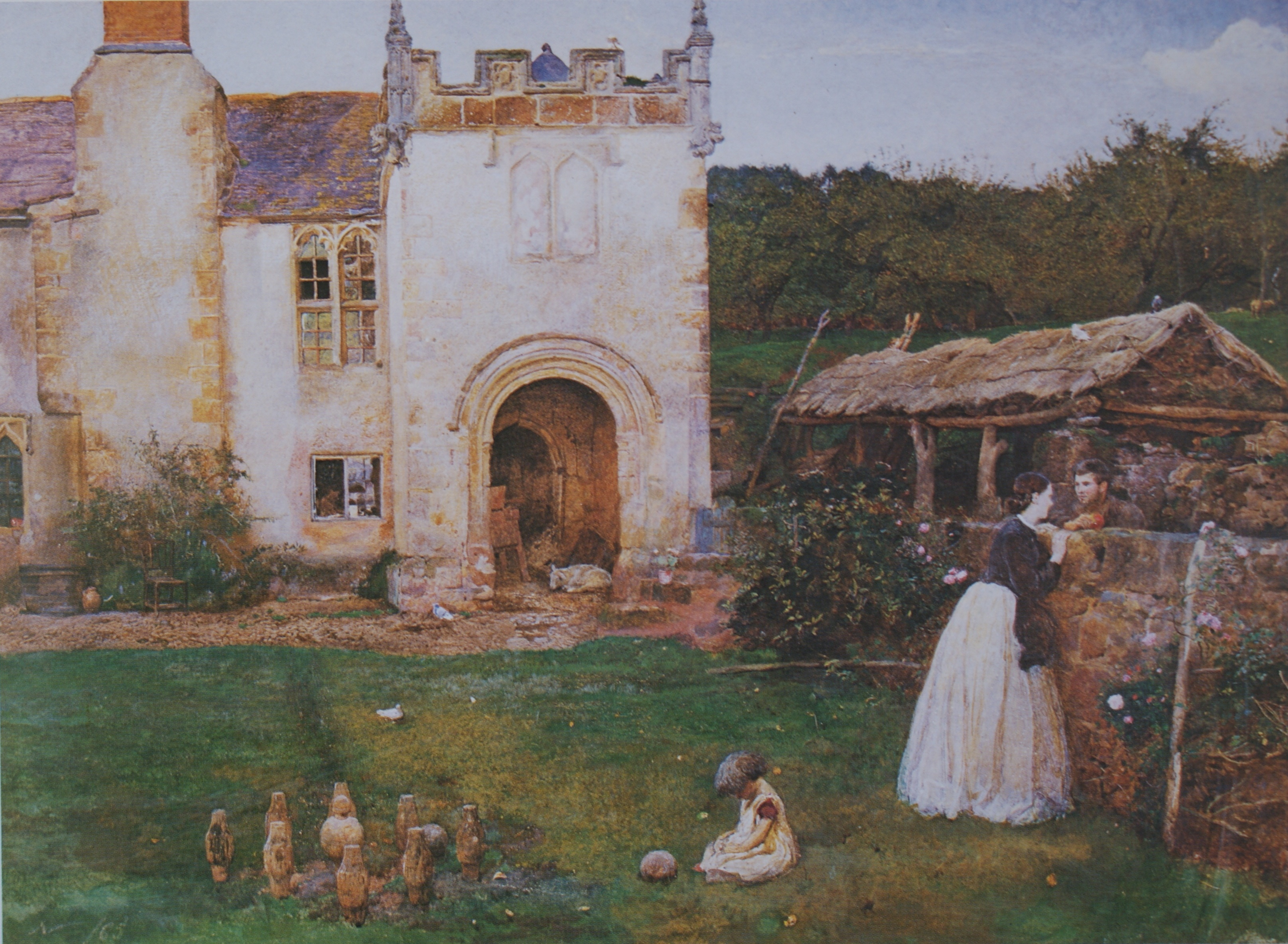 "Halsway Court, Somerset" (watercolour)